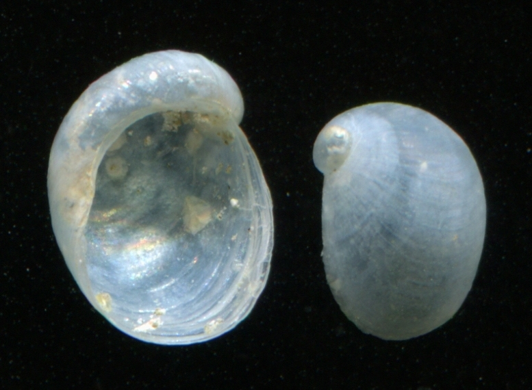 Photo of a shell of Coriocella nigra from the Tuamotu, Rangiroa, Pacific Ocean, 2013. Size is 8-9 mm.